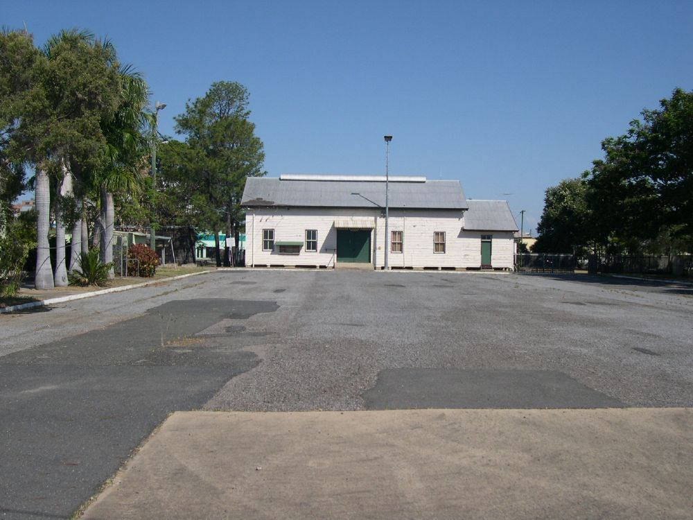 Training Depot Drill Hall Complex (former) (2006)